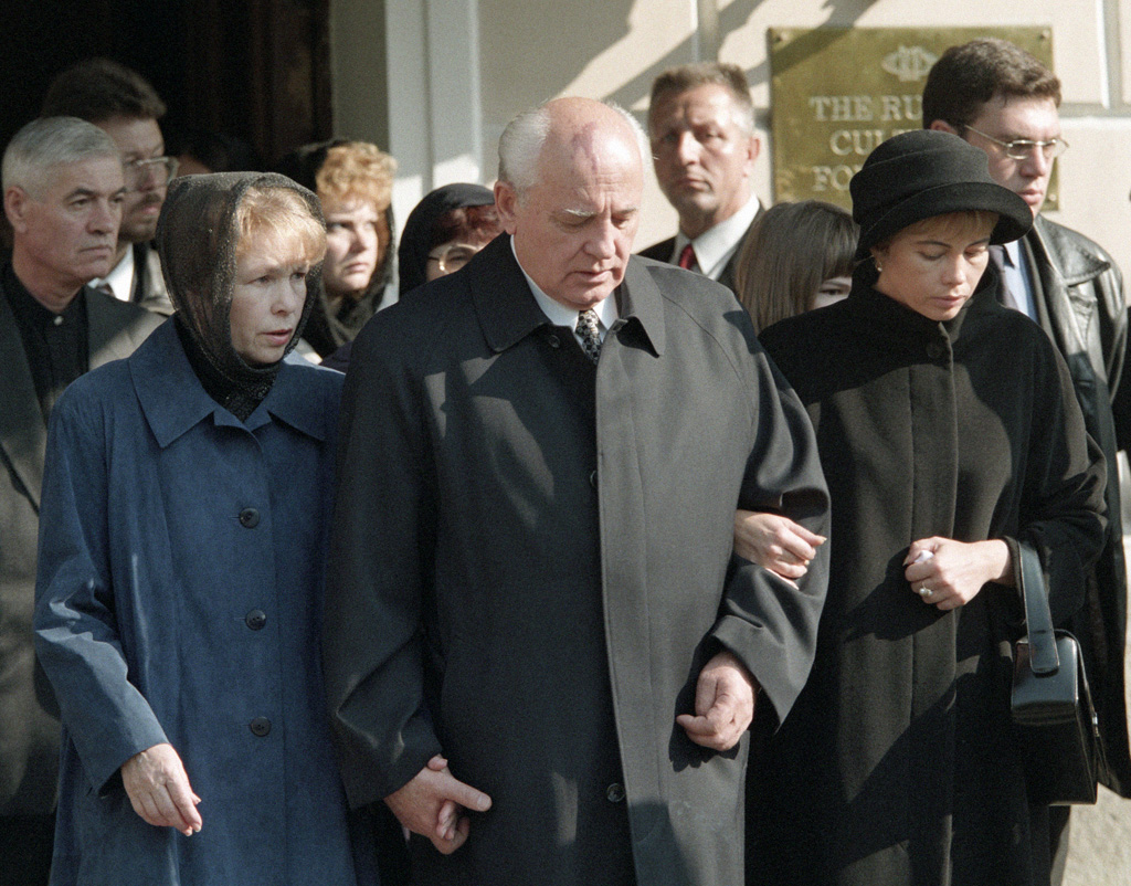 “Funeral of Raisa Gorbachev”. Mikhail Gorbachev (center), daughter Irina (right) and his wife's sister Lyudmila (left) at the funeral of Raisa Gorbachev.